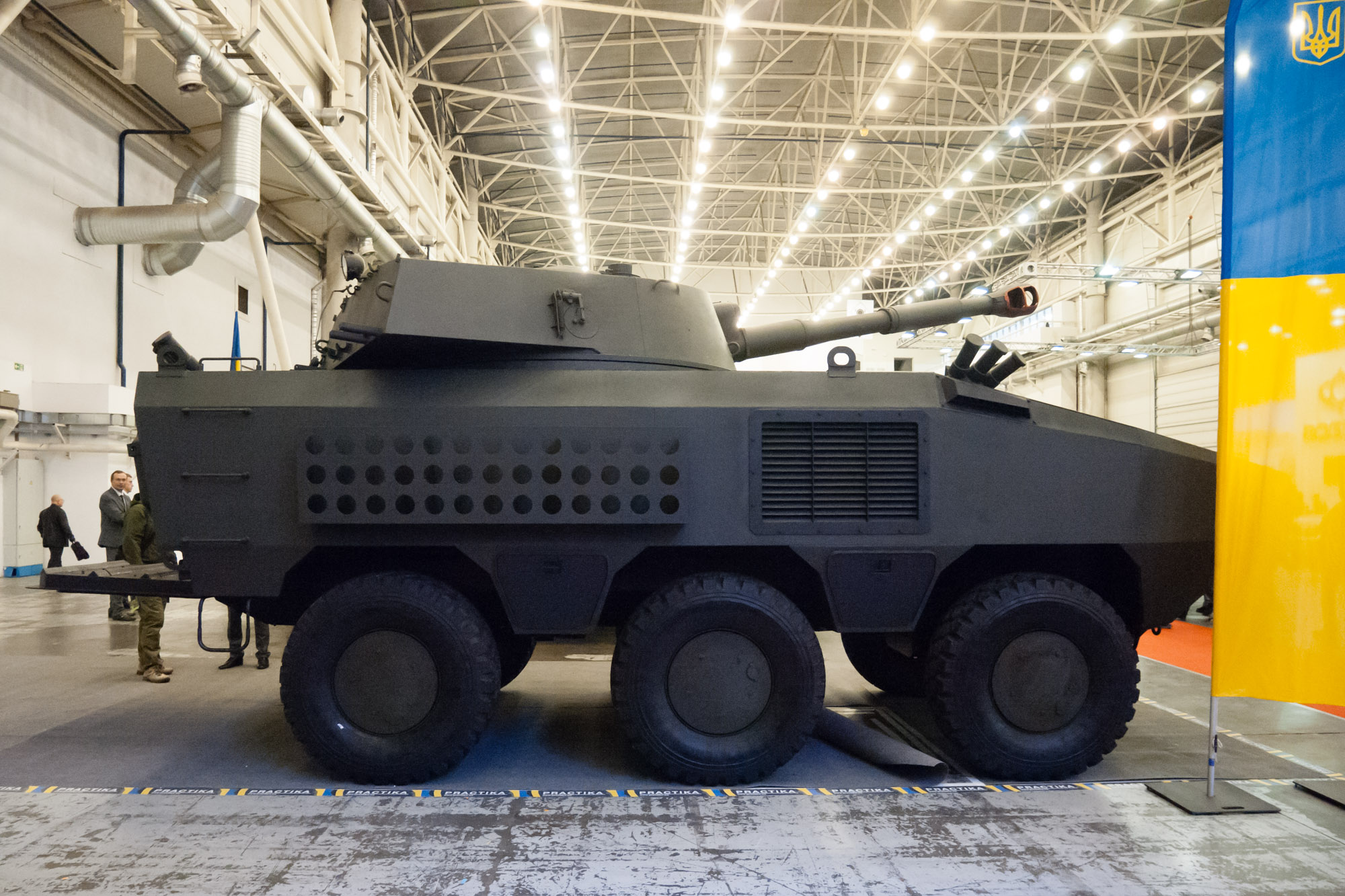 Otaman 6x6 vehicle (Ukraine)